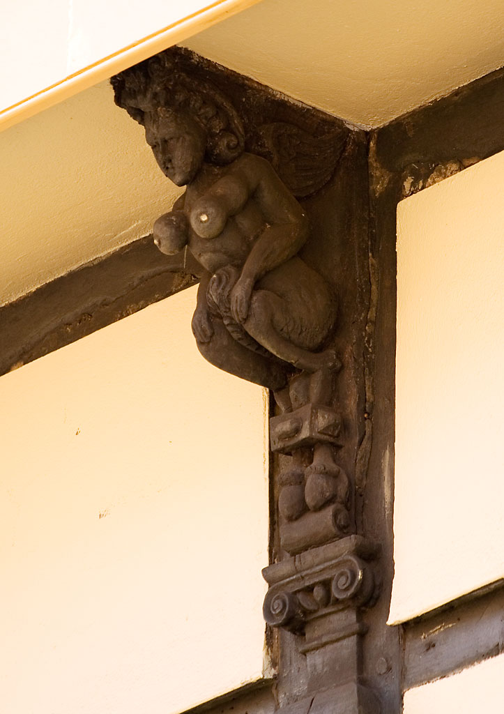 One of seven a 16th century wooden corbels supporting a jettied floor of a former coaching inn at 25 Magdalene Street, Cambridge. The bracket is in the form of a succubus, showing that the inn was also a brothel. The building is mid-16th-century and was originally the Cross Keys Inn, the largest of five inns that used to be in Magdalene Street.